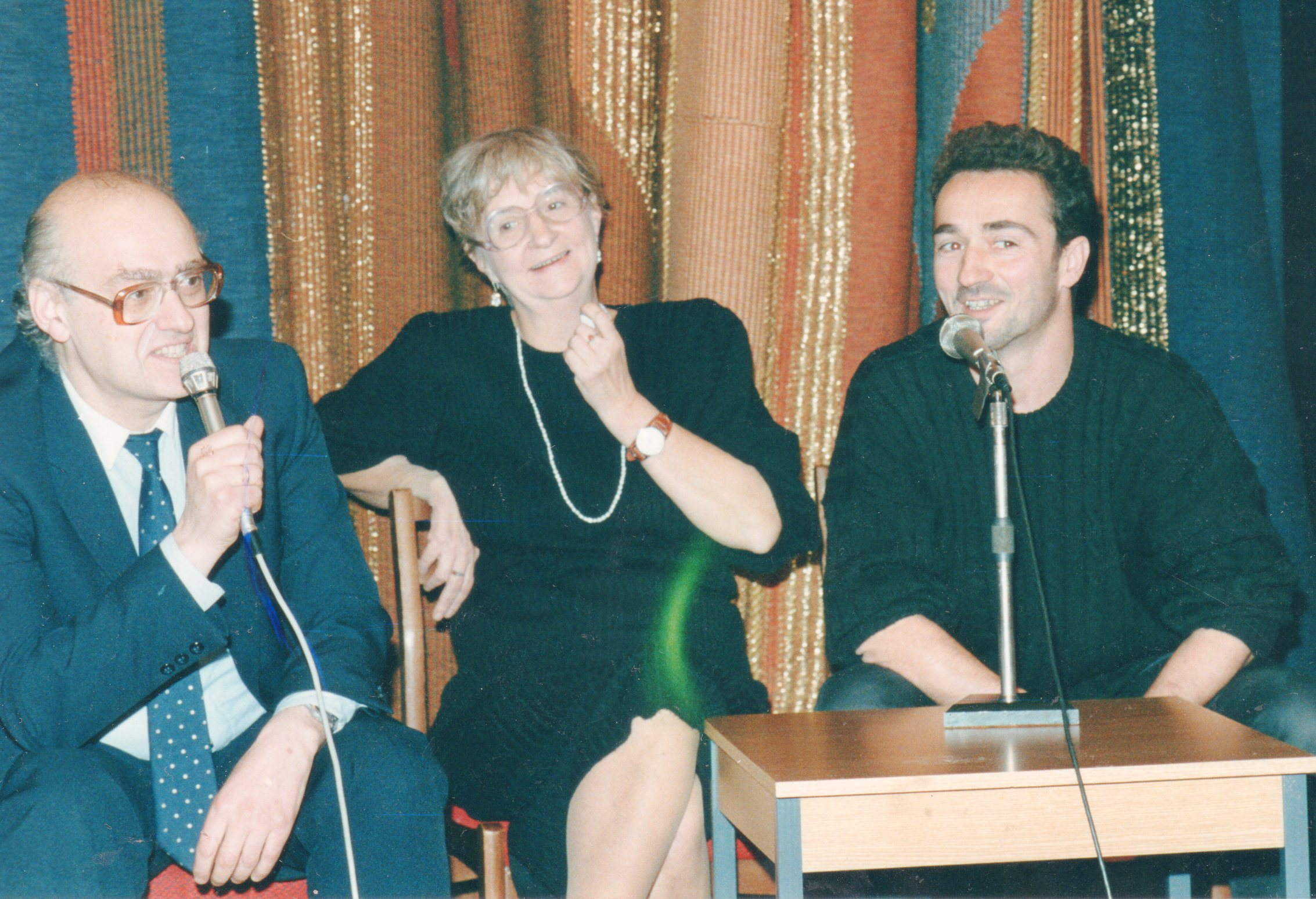 Russian ballet critic Natalia Chernova and Angelin Preljocaj